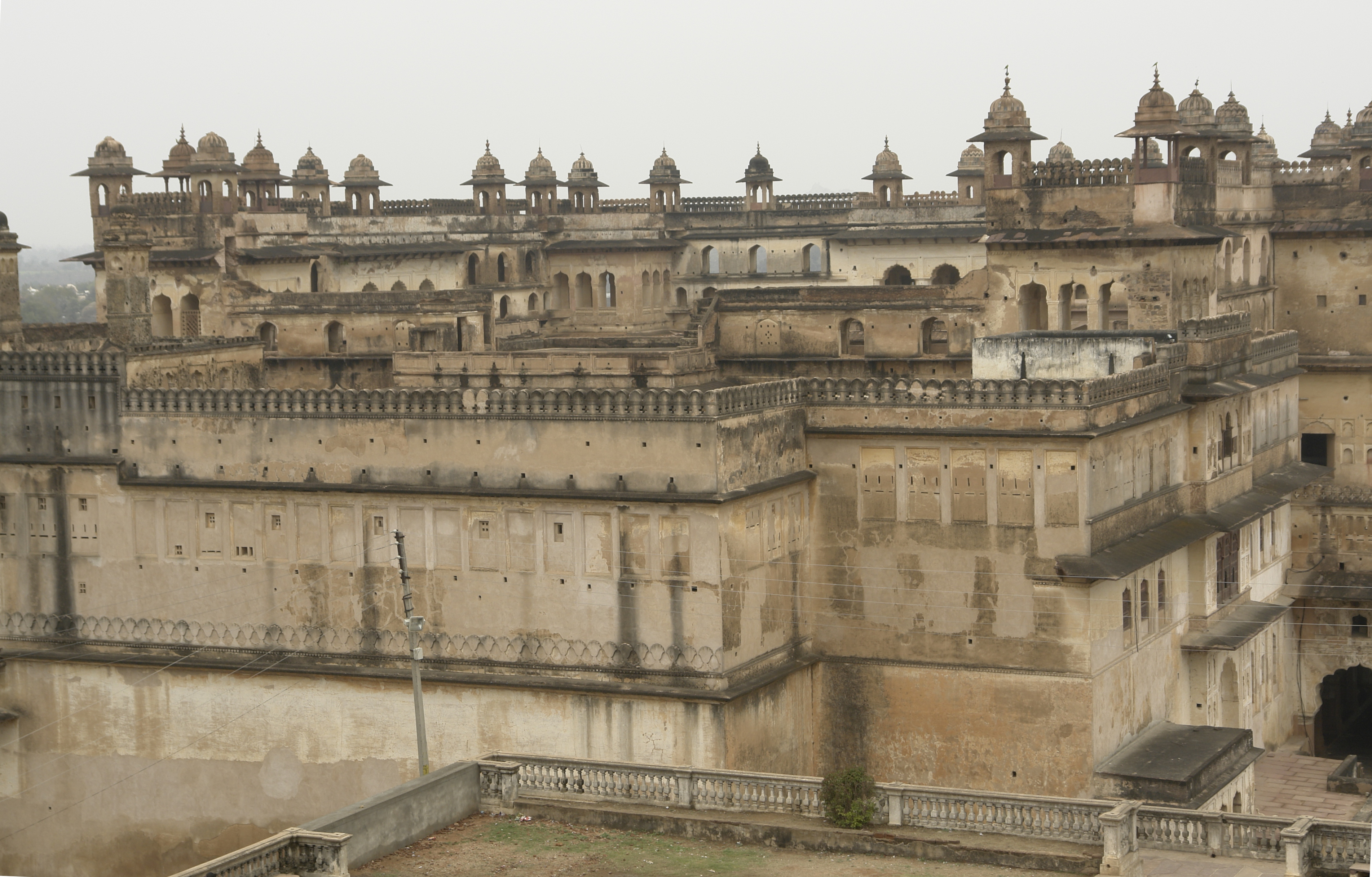 King Palace (Raja Mahal), Orchha, Madhya Pradesh, India.